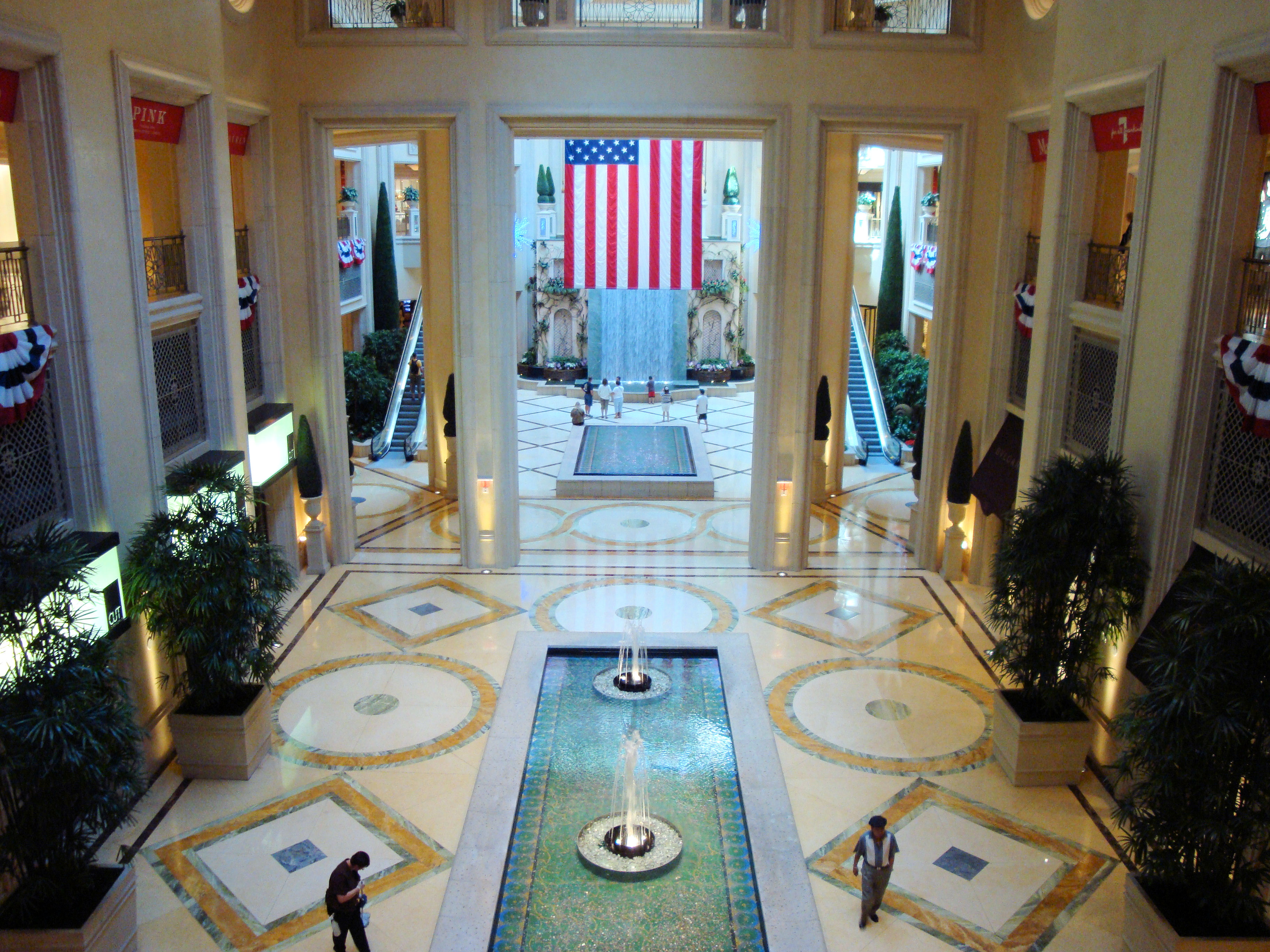 As anyone who’s been fortunate enough to visit the Italian countryside and seaports knows, the country is famous for its hospitality and a divine range of diversions. The Palazzo was created with precisely that in mind. The beauty of Capri. The luxurious serenity of Portofino. The couture of Milan. The culinary greatness of Tuscany. The graciousness of the people. Here, it all comes together to fashion the epitome of a lifestyle of luxury.